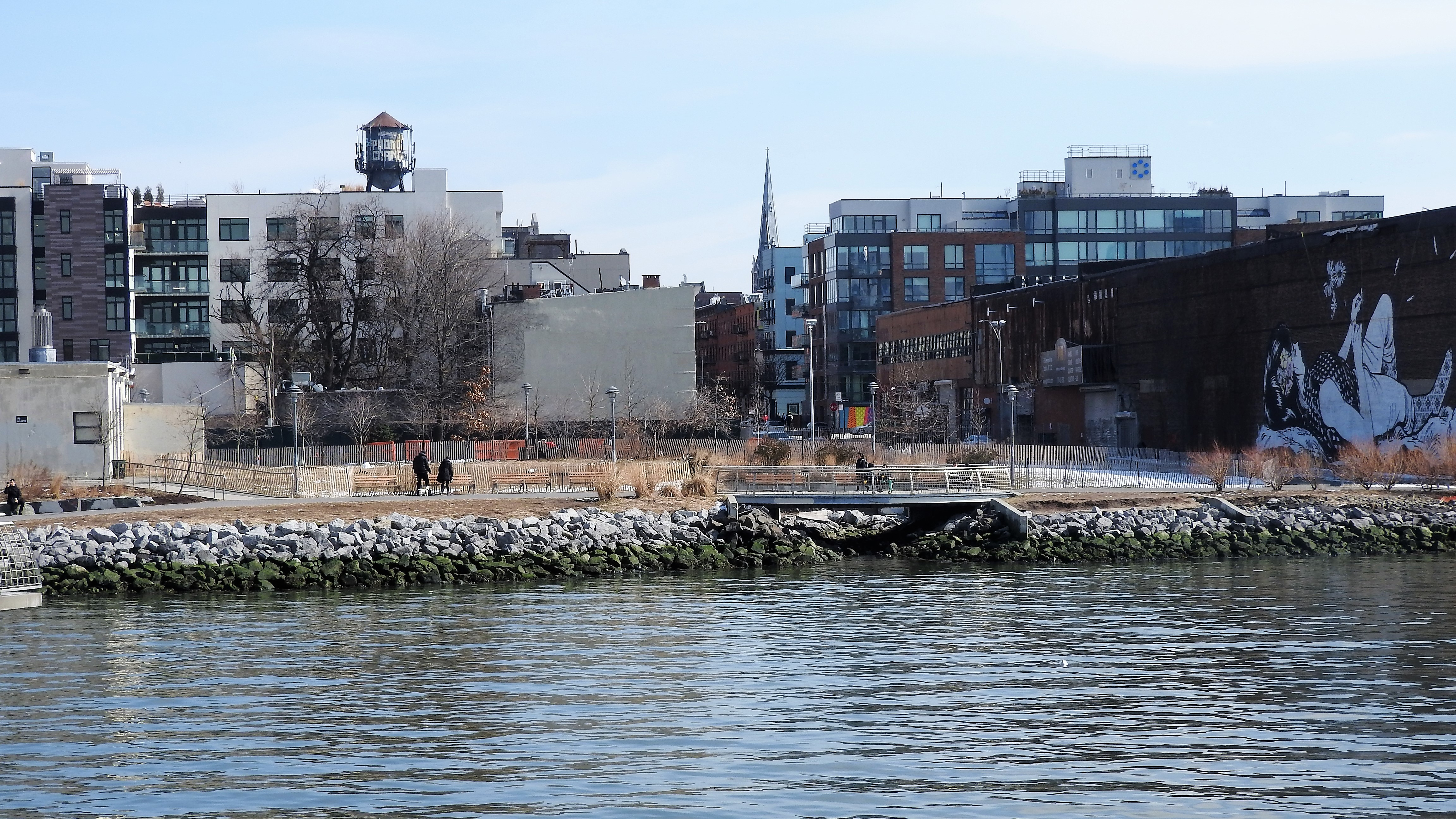 Looking west from pier